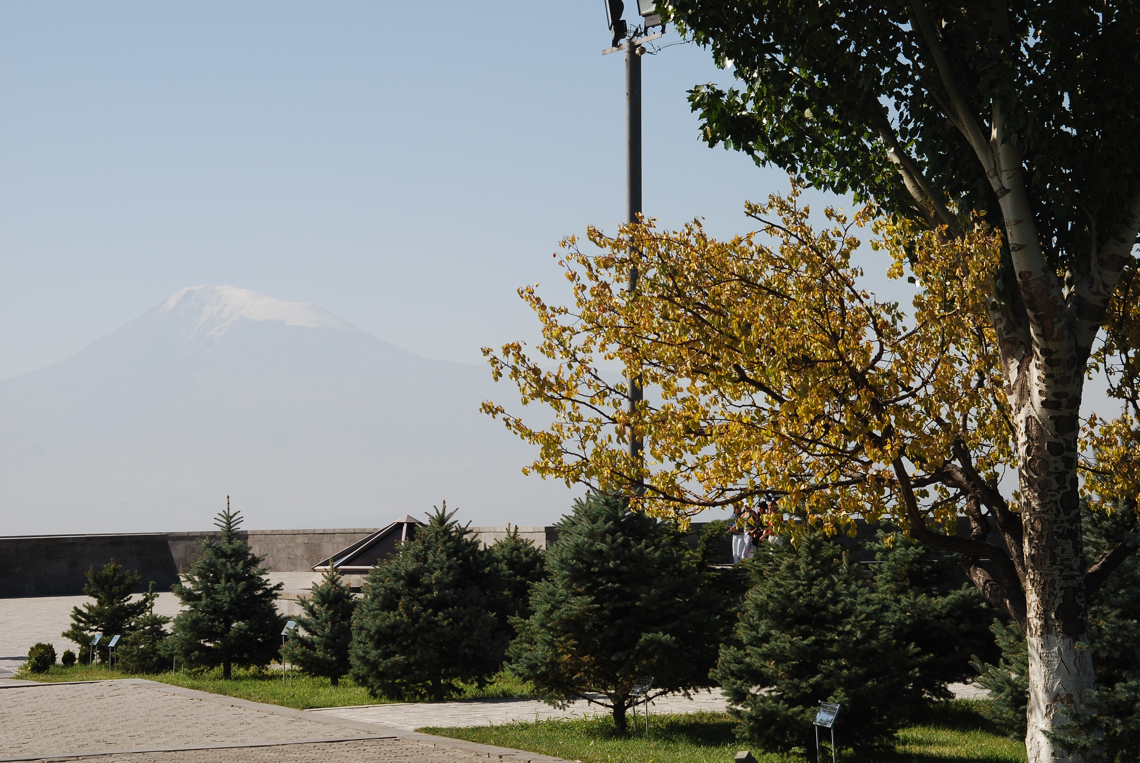 Memorial trees planted by foreign dignitaries in memory of the Armenian Genocide at the Tsitsernakaberd memorial in Yerevan, Armenia.